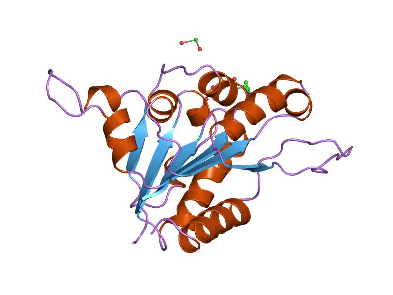 Cartoon representation of the molecular structure of protein registered with 1e20 code.